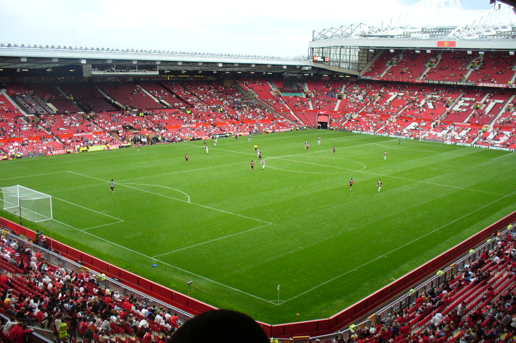 Inside Old Trafford Football Stadium Pre-season junior football match